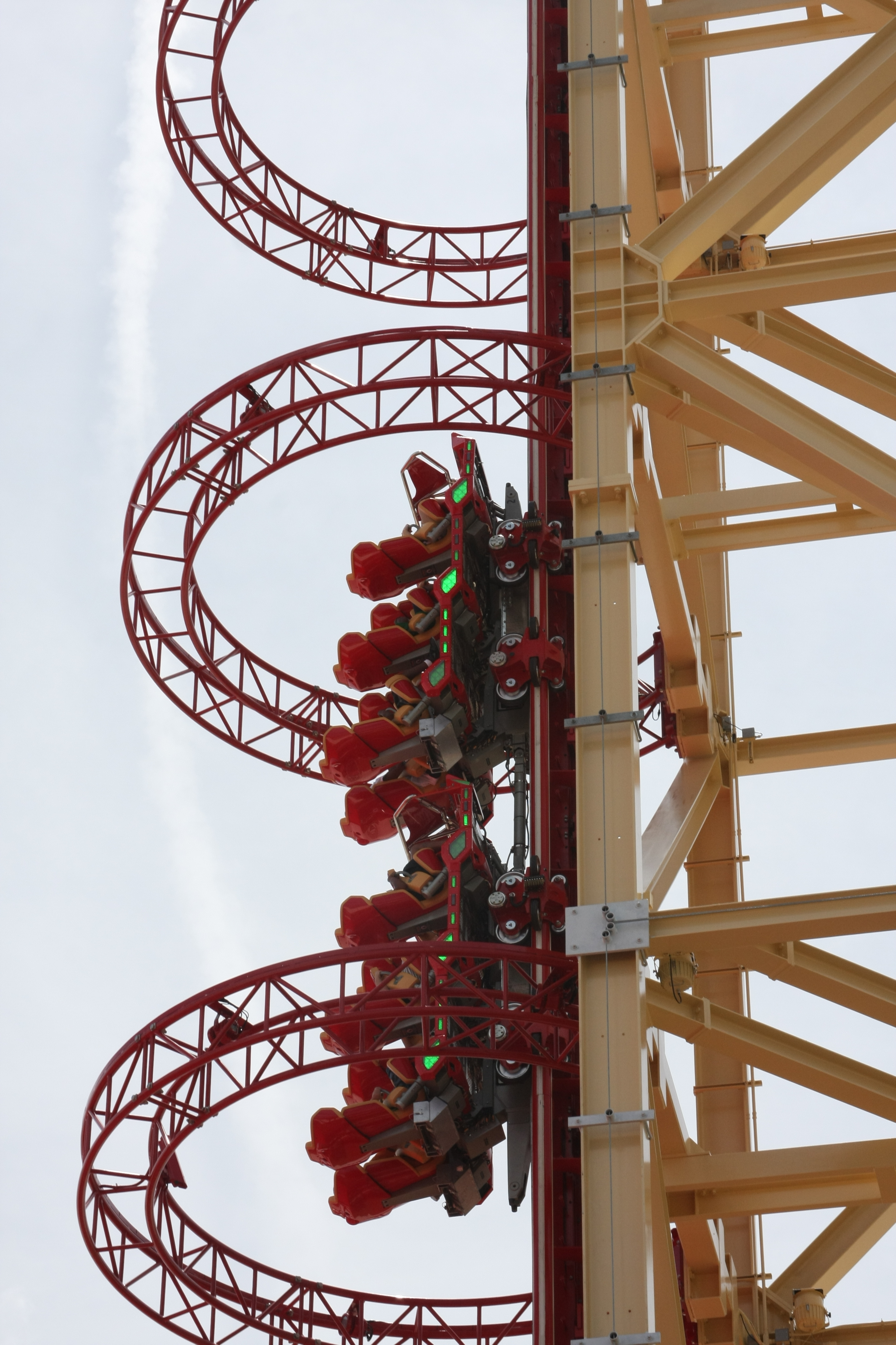 Train ascending the vertical lift on Hollywood Rip Ride Rockit at Universal Studios Florida in Orlando